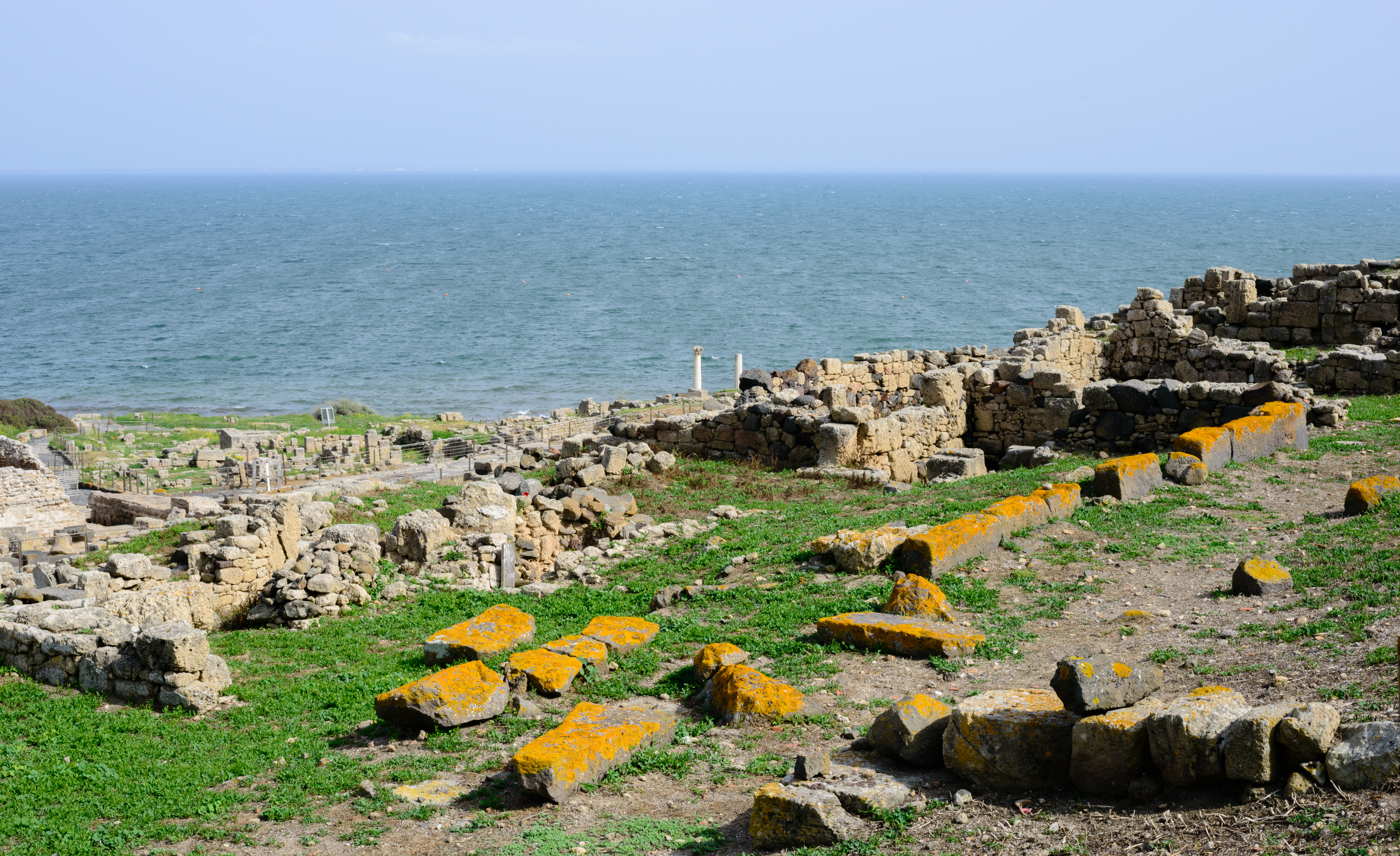 Tharros, ancient city ruins on the west coast, province of Oristano, Sardinia, Italy.